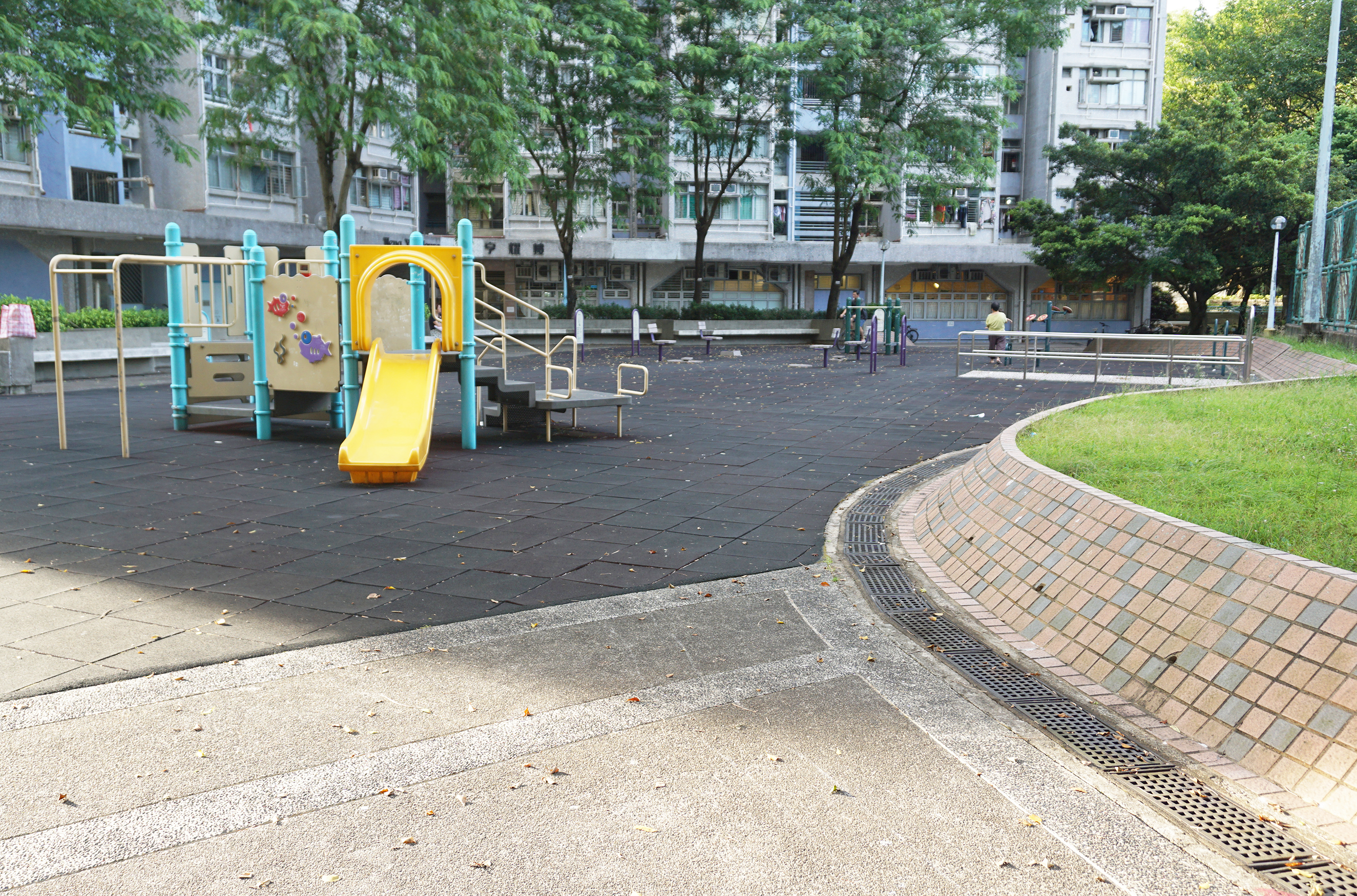 Fu Heng Estate in Tai Po, Hong Kong.